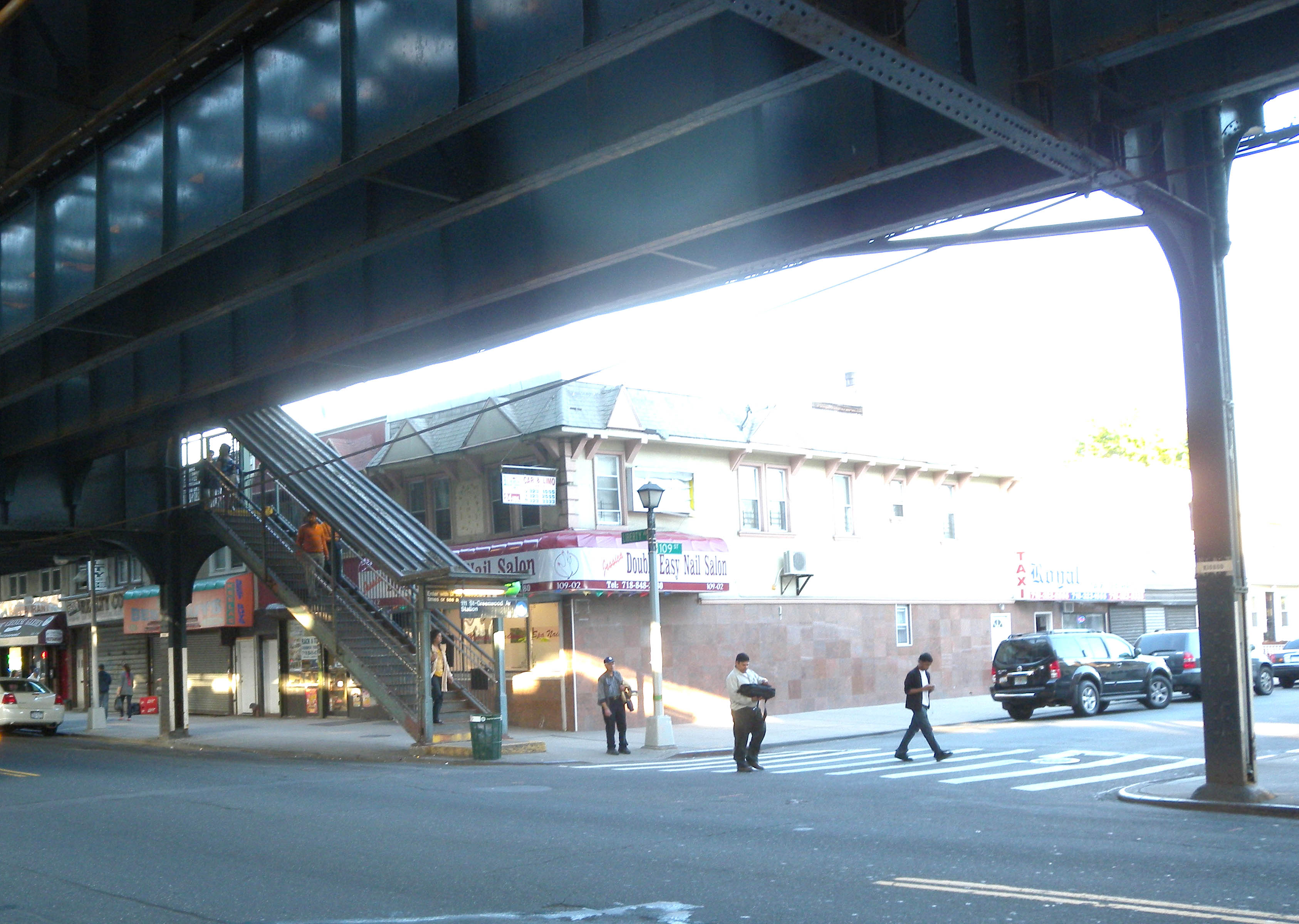 Looking east across Liberty Avenue and 109th Street at southwestern stair of en:111th Street (IND Fulton Street Line) on a sunny afternoon in Ozone Park. ZIP 11419.